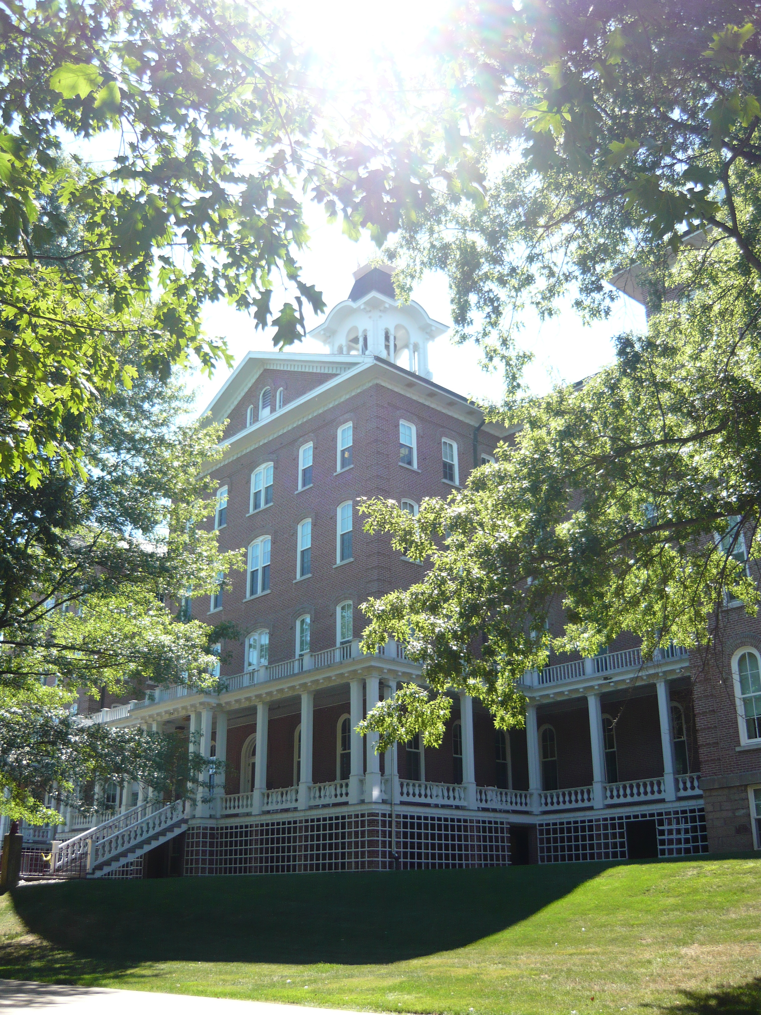 Sutton Hall, 1011 South Drive, (Borough of) Indiana, Pennsylvania. On the campus of Indiana University of Pennsylvania (IUP).